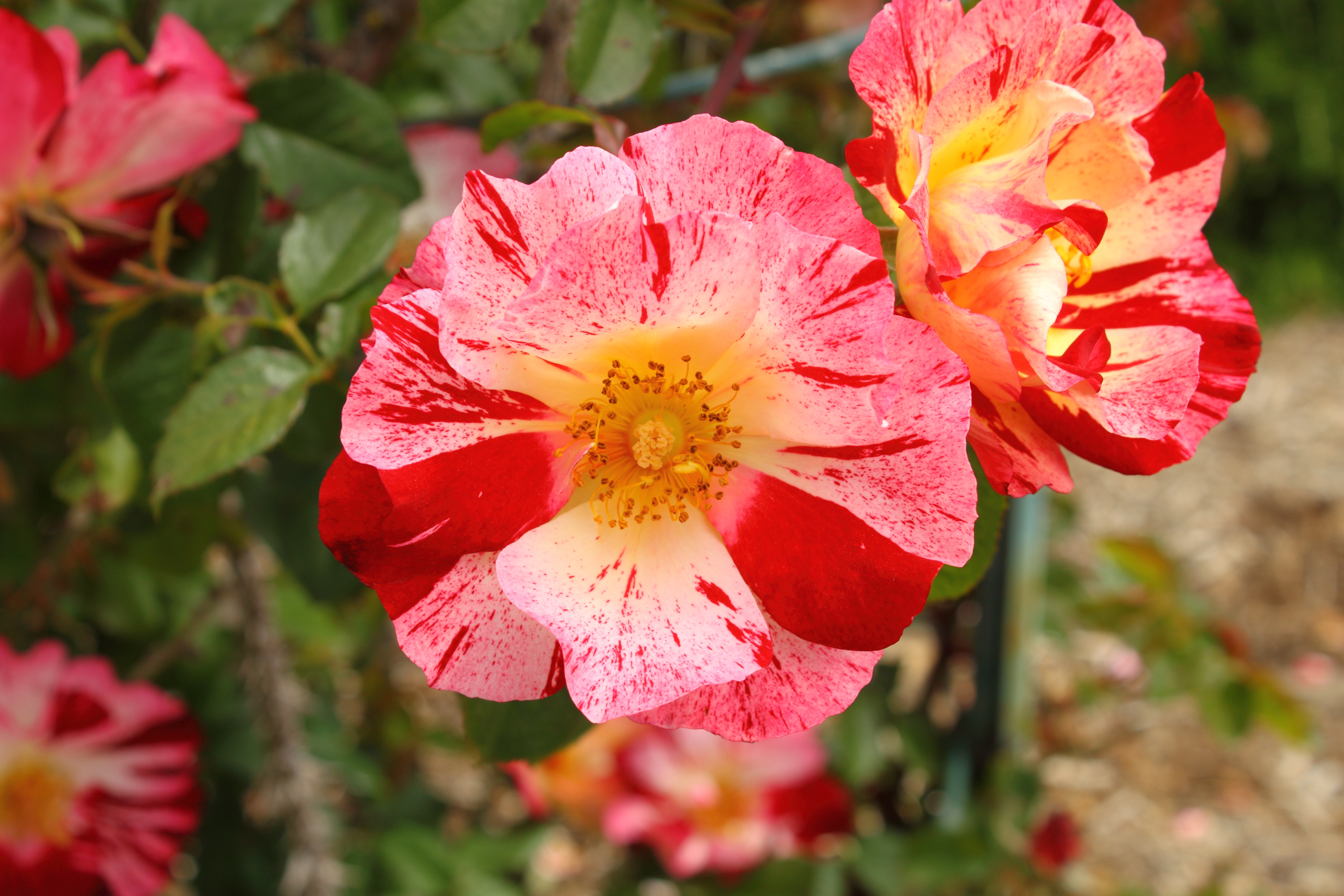 Rosa en 'Fourth of July'